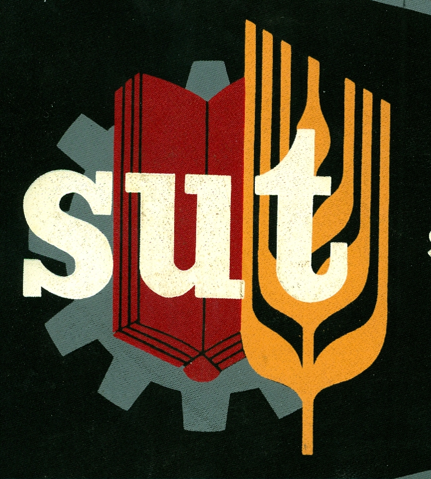 Iconic symbol